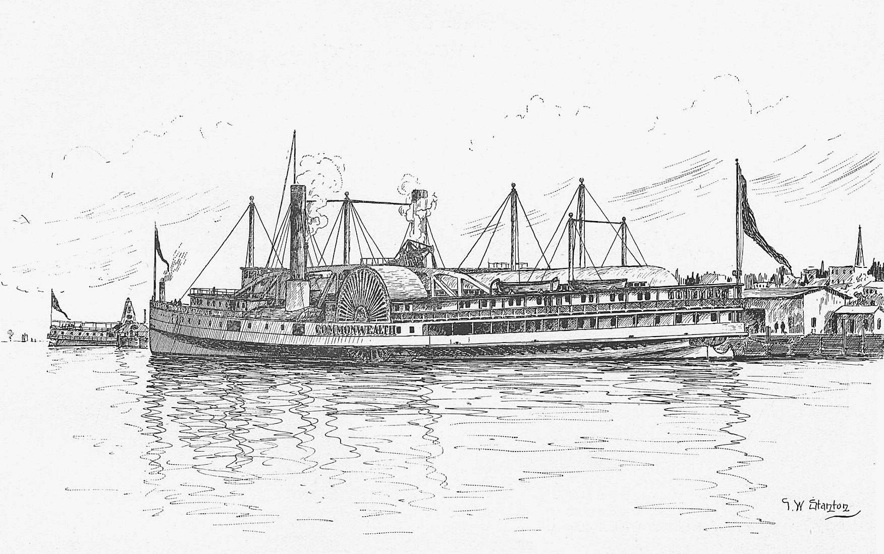 Stern view of the 1854 Long Island Sound steamboat, illustration by Stanton.